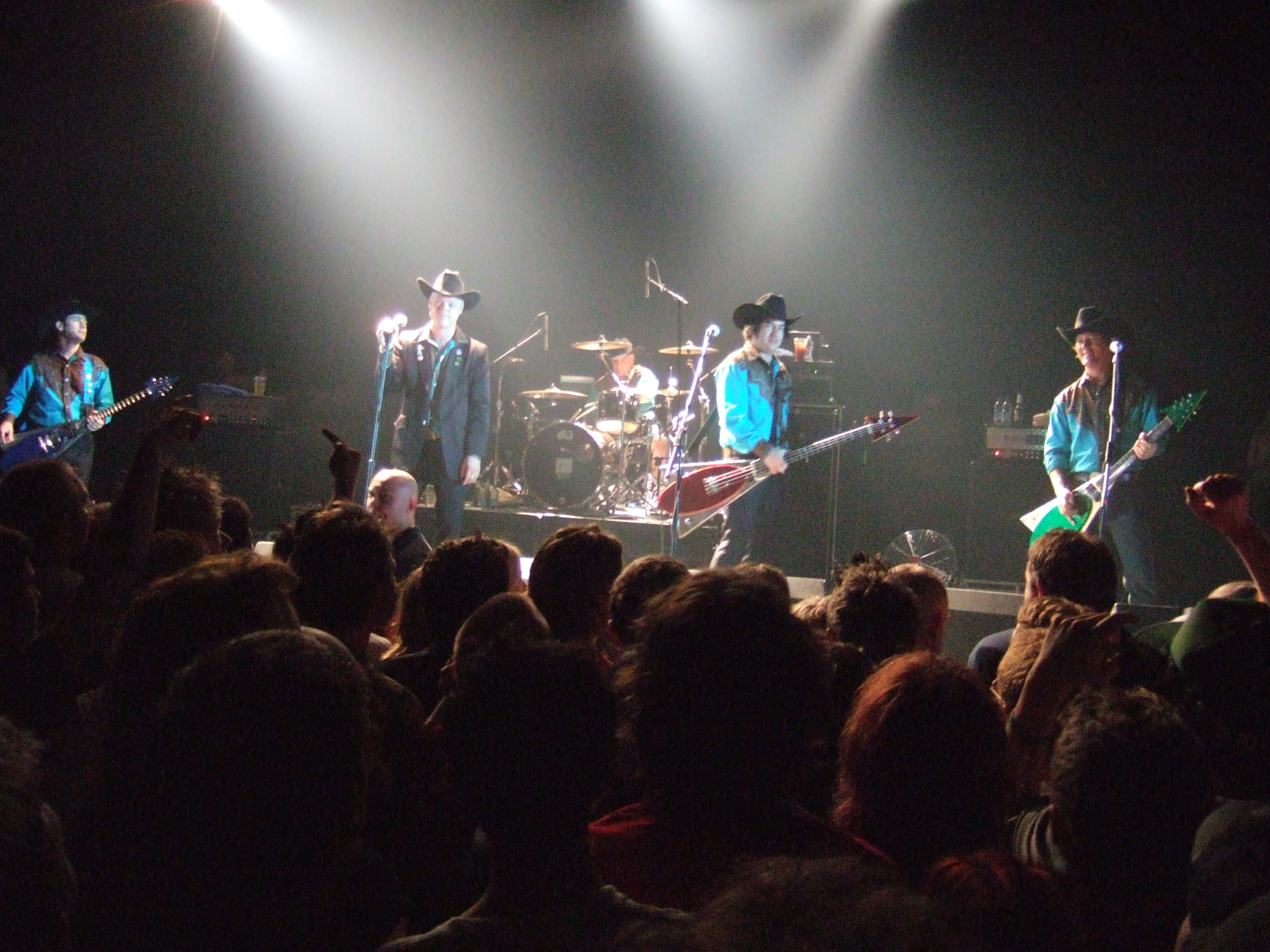 Me first and the Gimme Gimmes in concert at Astoria, London, England. From left to right: Joey Cape, Spike Slawson, Dave Raun, Fat Mike, and Jake Jackson.